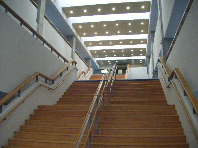 View of the new building's atrium and central staircase.